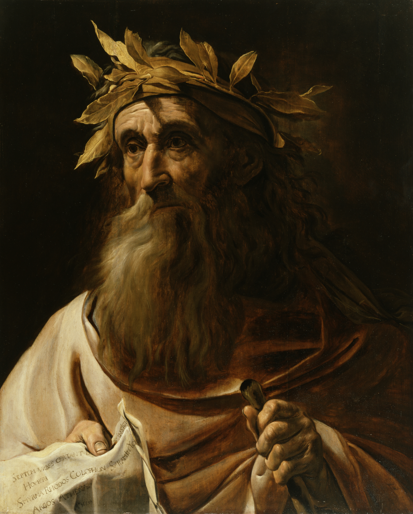 The old man honored by a laurel wreath is Homer, the greatest poet of antiquity, identified by the inscription on the sheet of paper with the names of the cities that claimed Homer as a native. This imaginary portrait (no one knows what he looked like) is not so much a celebration of the author of the early Greek epic poems- The Iliad and The Odyssey- but of the fame that a poet could achieve. This splendid painting is dated but not signed. The forceful modeling suggests a Flemish painter influenced by Caravaggio (Italian, 1571-1610).